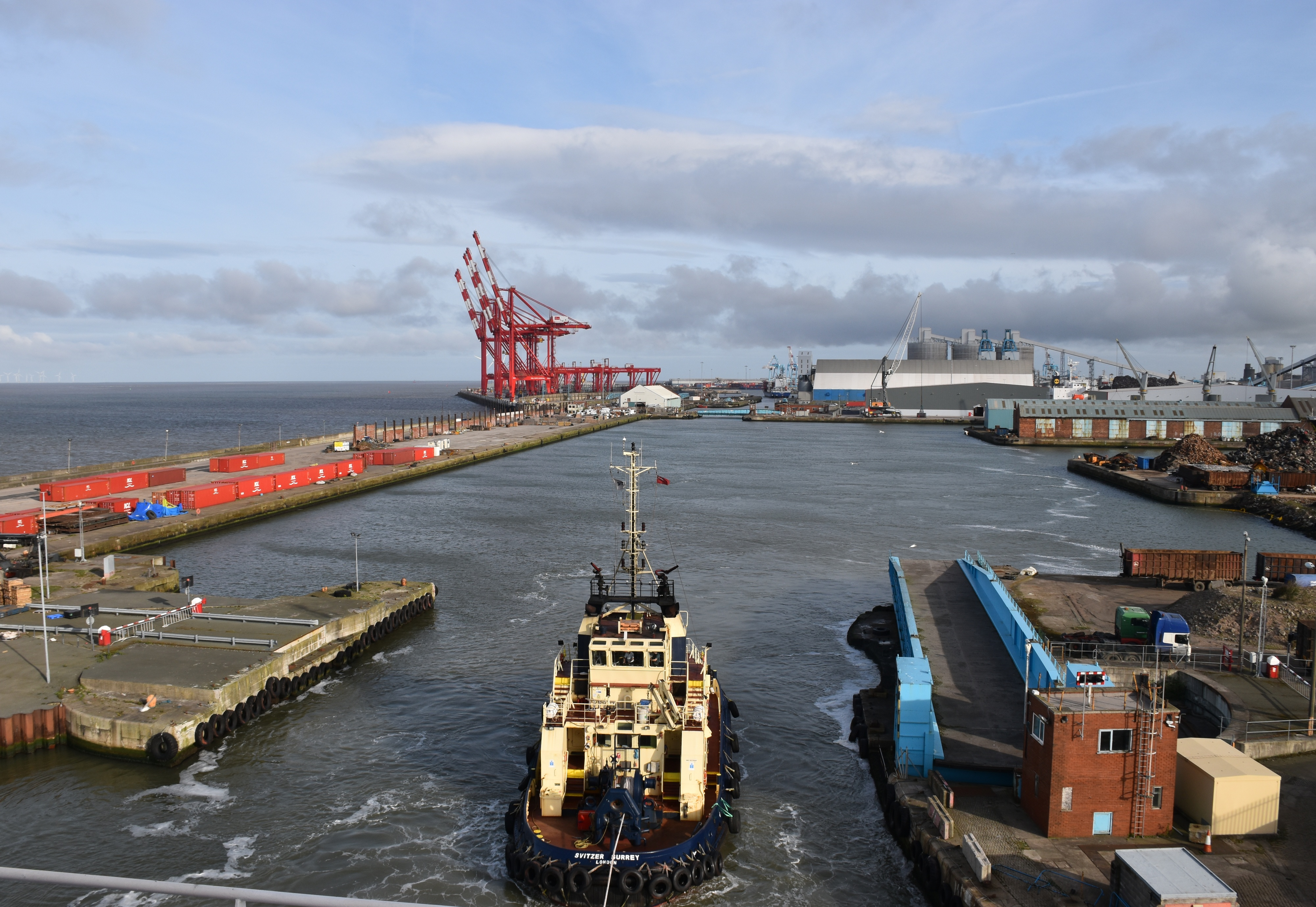 An overview of Alexandra Dock, April 2017. The three branch docks can be seen on the right, the most Southern branch has been filled in.